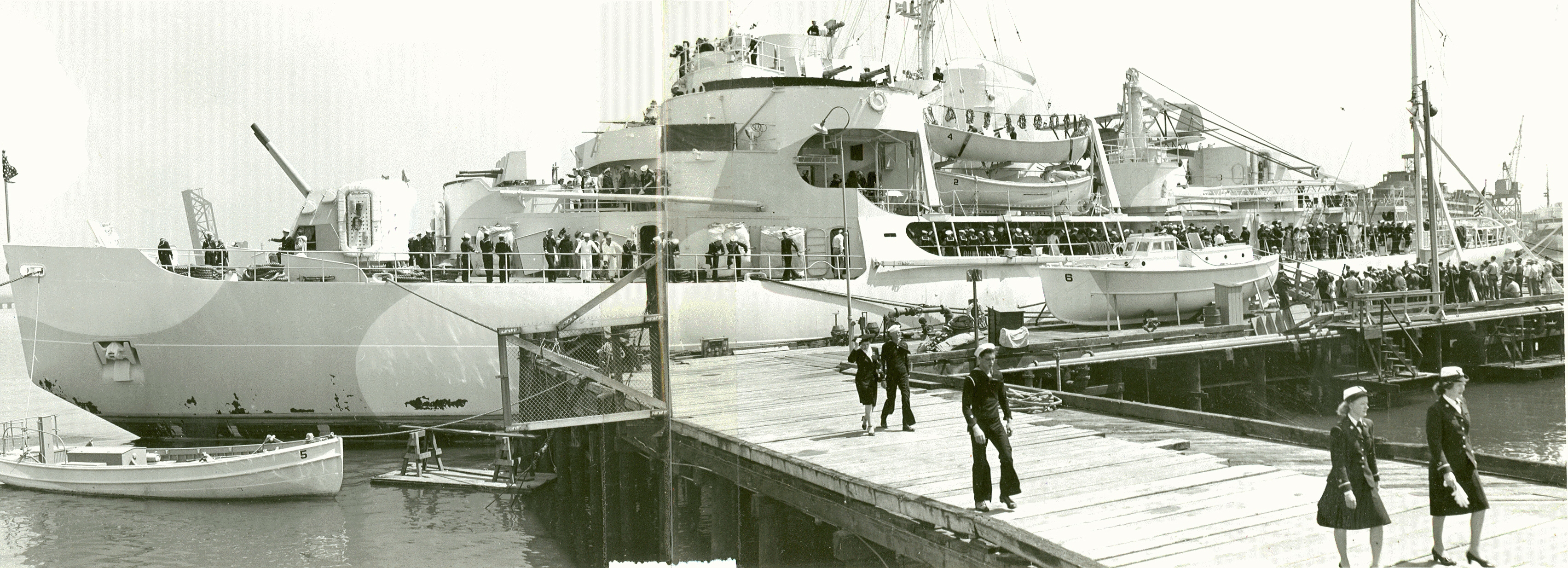 The USCGC Southwind, likely from the date of her commissioning.